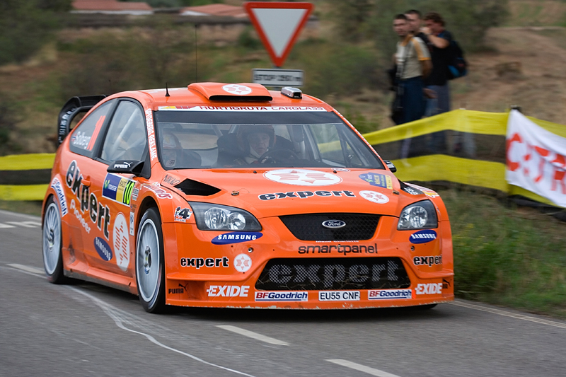 Henning Solberg driving his Ford Focus RS WRC 06 at the 2007 Rally Catalunya.